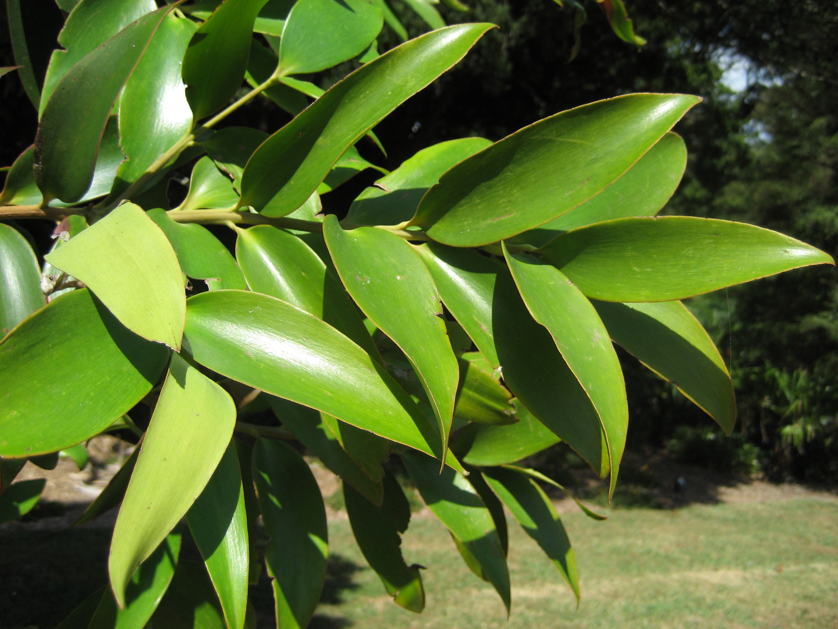 foliage of South Queensland Kauri, Agathis robusta, Auckland, New Zealand, 3 March 2007. Photo by uploader, no rights reserved.